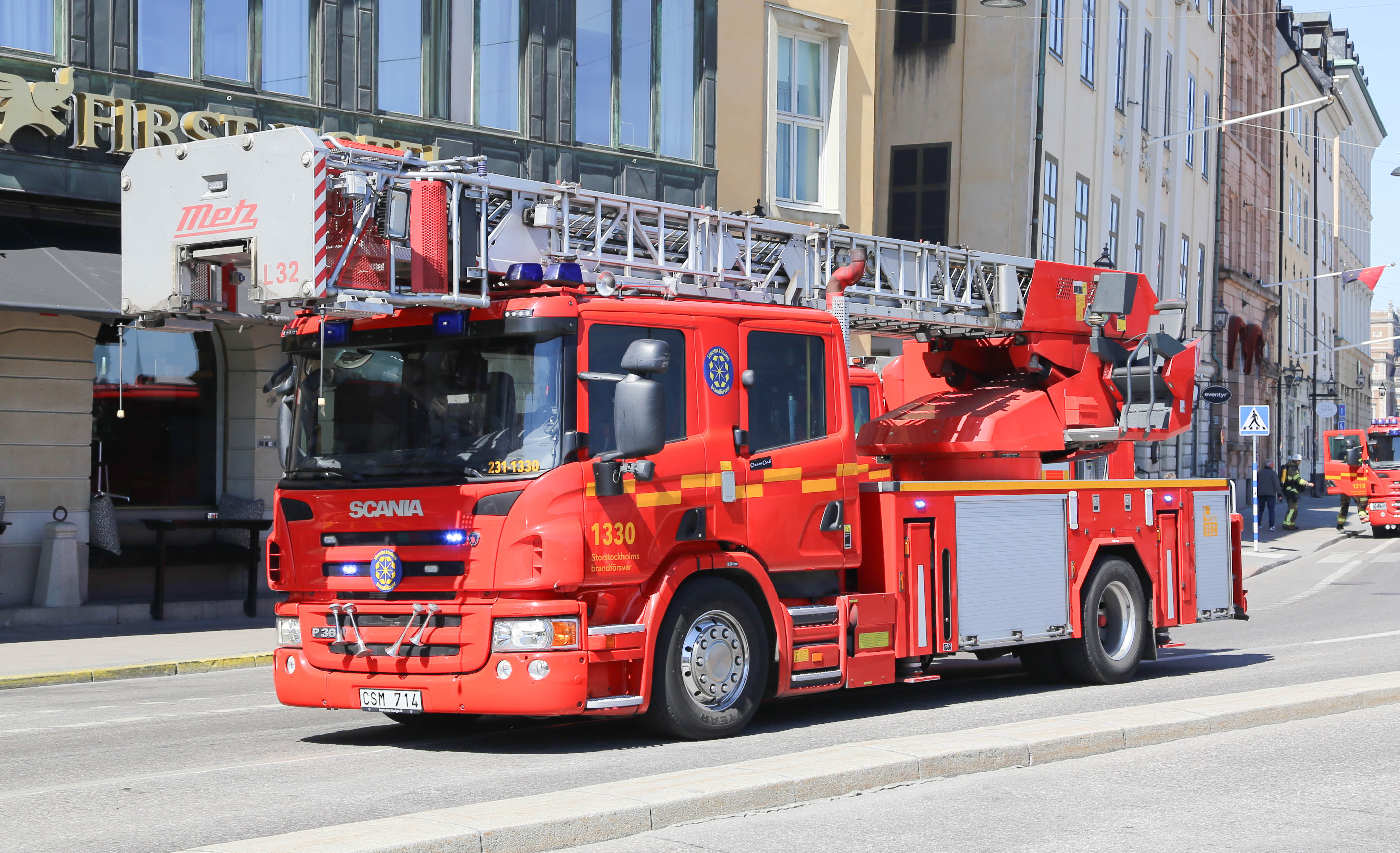 Turntable ladder Metz L 32 on a Scania, Stockholm, Sweden